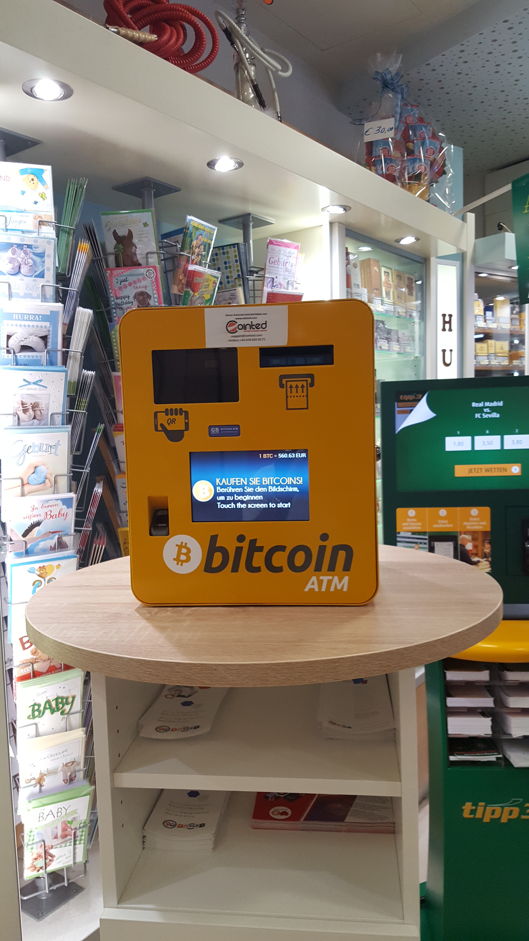 A Bitcoin ATM in Vienna - Westbahonhof